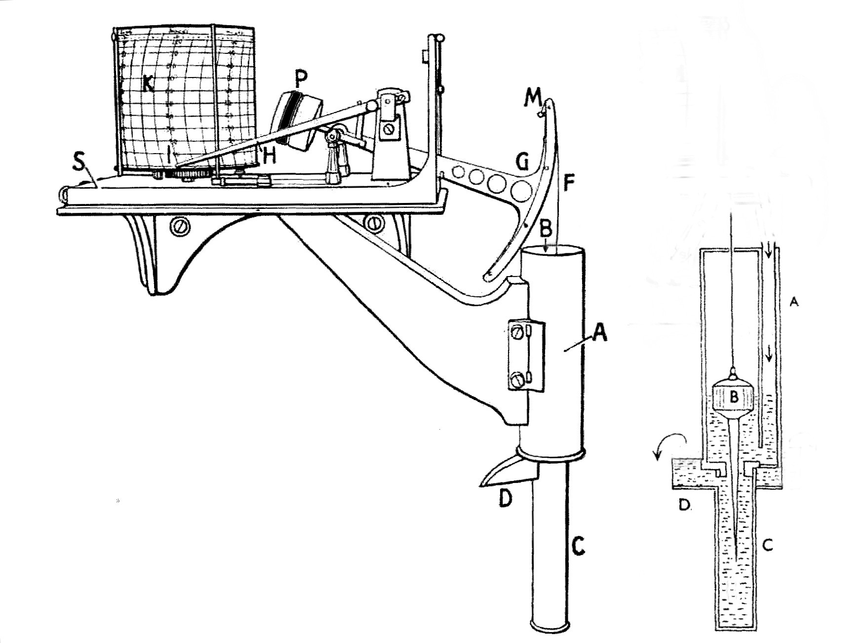 Pluviograph design by Ramon Jardi i Borràs, Barcelona (1927), capable to record on paper the water rainfall rate over a longtime lapse, used to record the water rainfall rate in Barcelona fduring the last 84 years